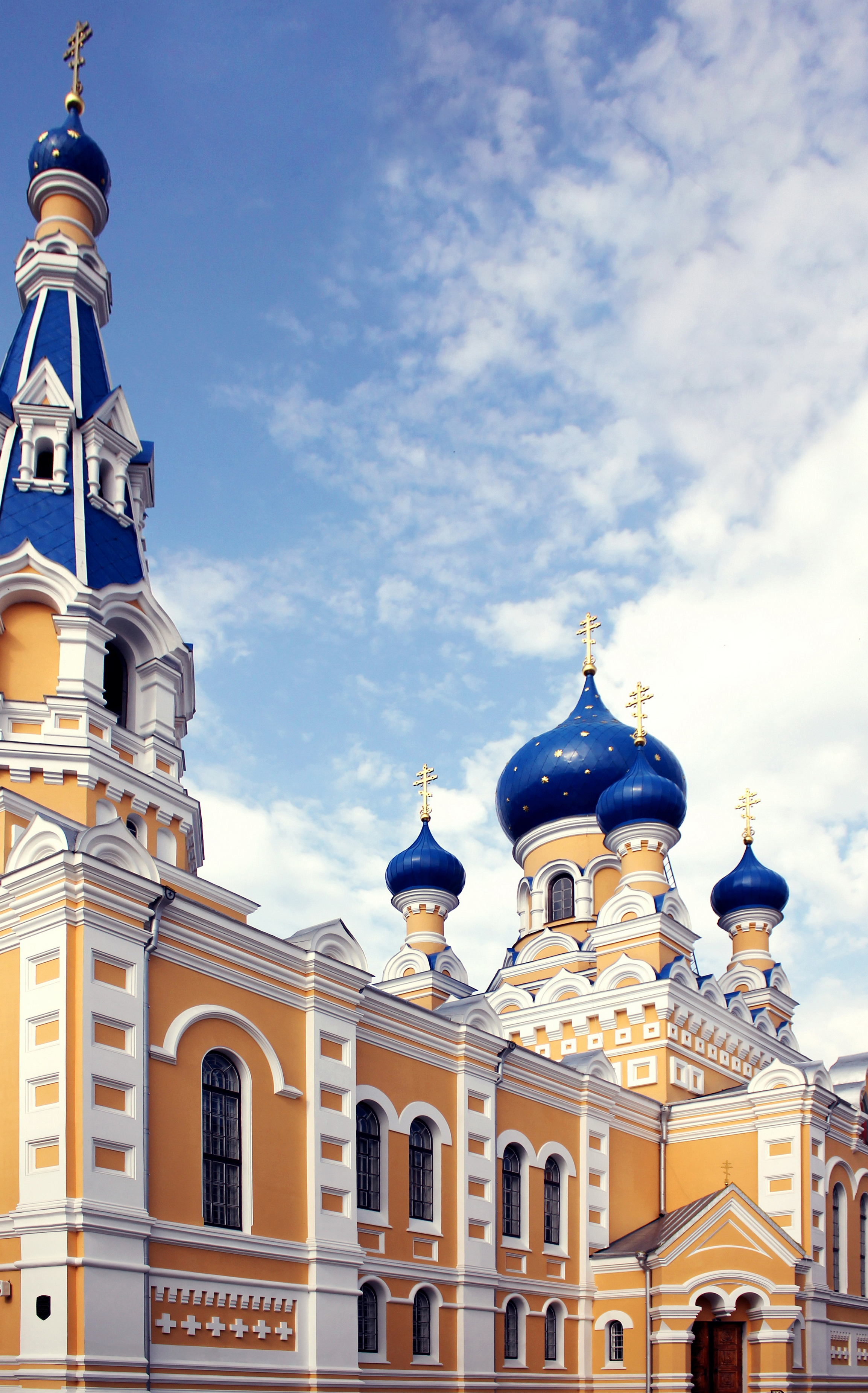 St. Nikolas Church, Brest, Belarus